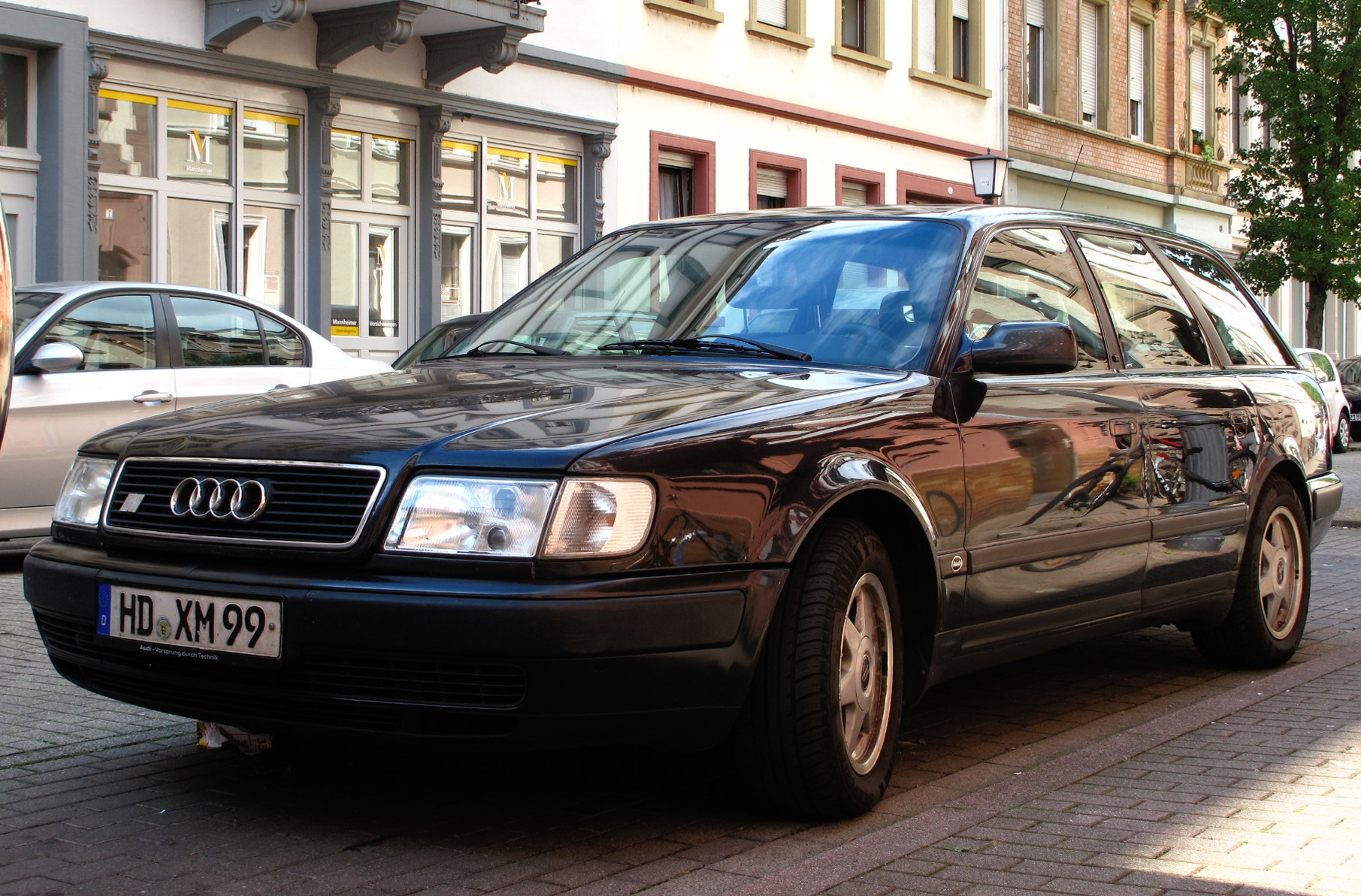 Heidelberg Audi 100-based S4 Avant, a rather confusing name since the refreshed 100 was renamed A6 and its sportier sibling S6, with the A4 and S4 names now being reserved for the Audi 80 replacement.